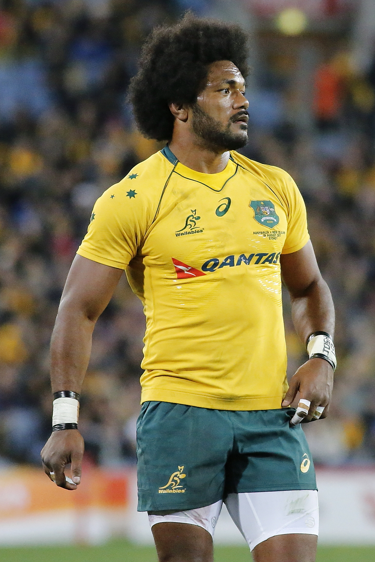 2017.08.19.20.24.10-Henry Speight 2017 Rugby Championship, Bledisloe 1, Australia vs New Zealand, 19th August, ANZ Stadium, Sydney